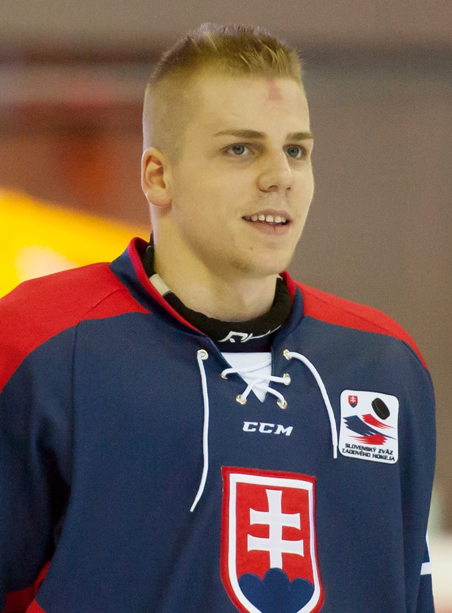 Euro Ice Hockey Challenge Vienna, February 7, 2015, Austria vs. Slovakia